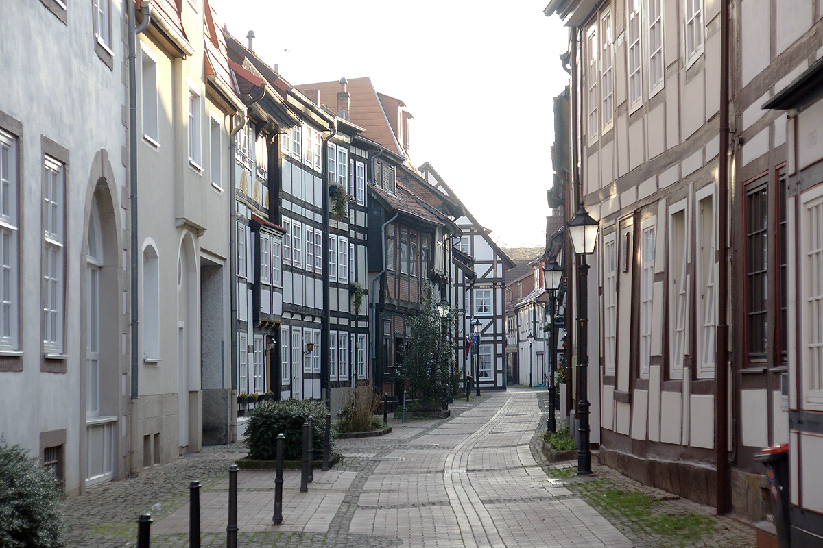 Street in Hameln